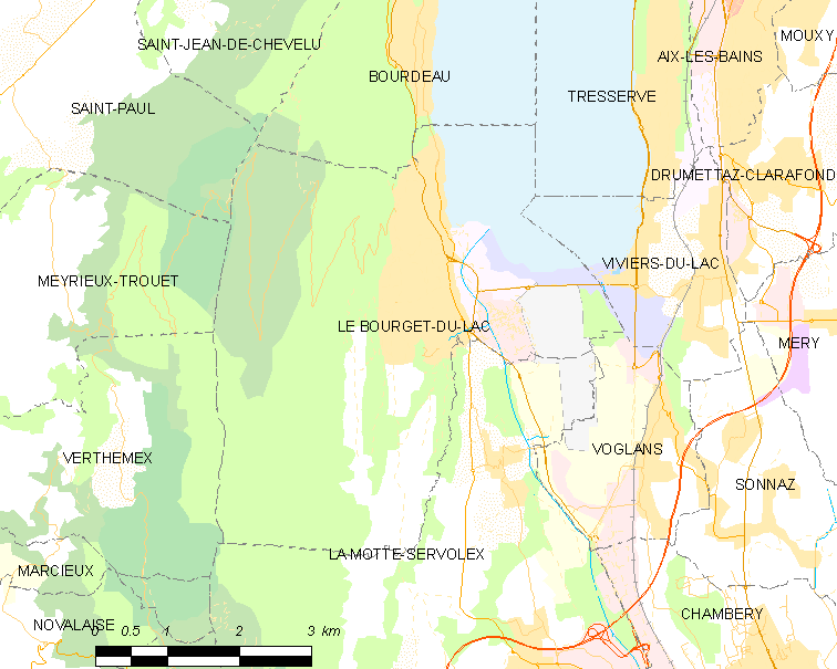 Map of French municipality